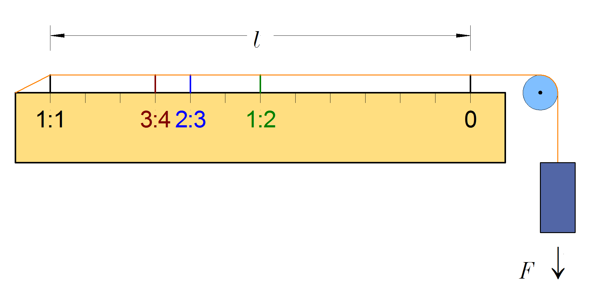 Monohord with corde length l and pulling force F. The positions are indicated where 4th, 5th and 8th (octave) occur.